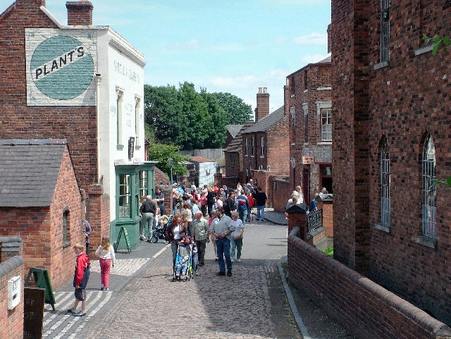 Black Country Museum. Old fashioned street scene at the Black Country Museum